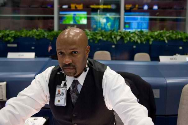 Photo of Flight Director Kwatsi Alibaruho in Mission Control during STS-126.